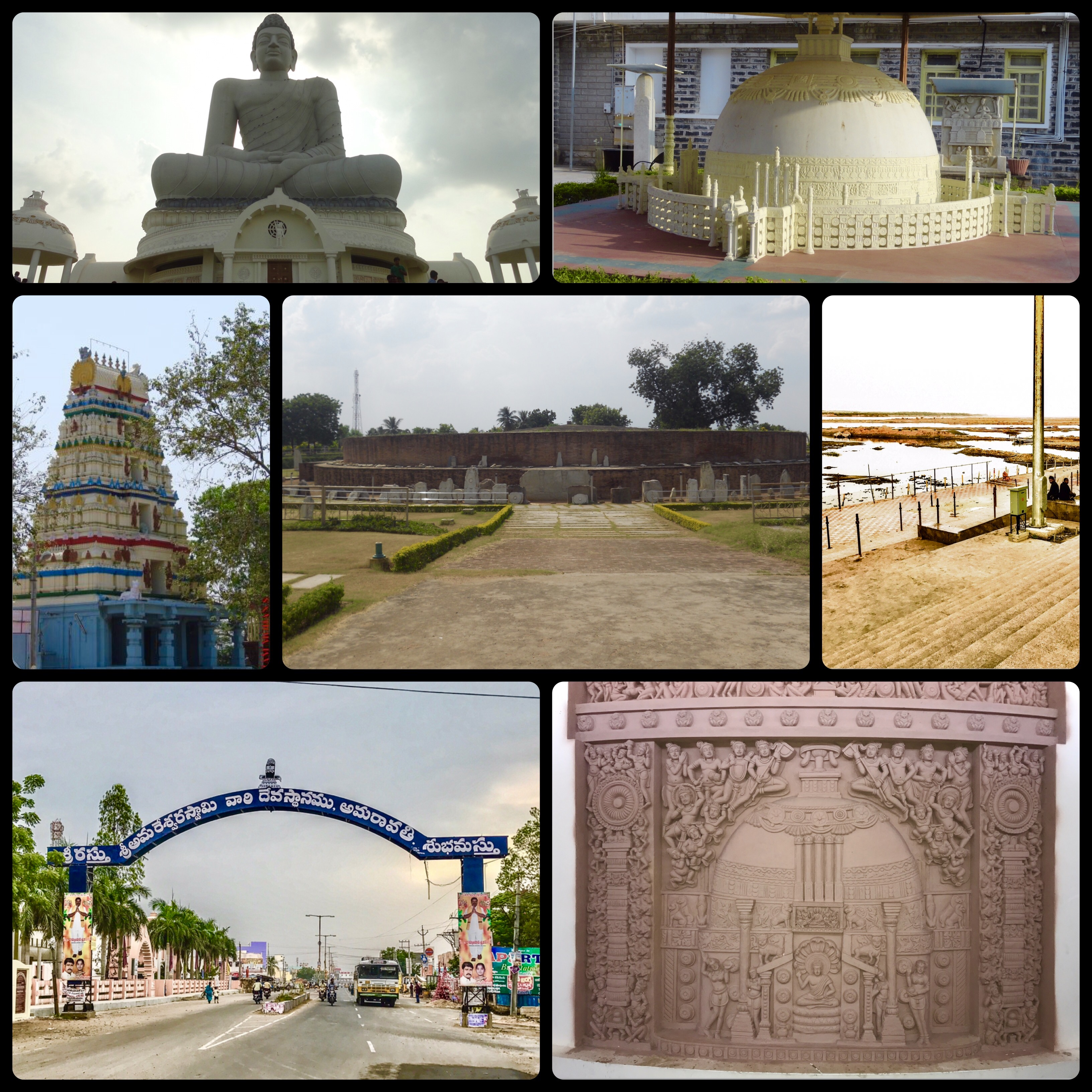 A montage pic of amaravathi